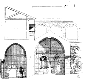 Lavabo. Cutting plane from the Cistertian abbay of Thoronet Viollet-le-Duc Dictionnaire raisonné de l'architecture française du XIe au XVIe siècle